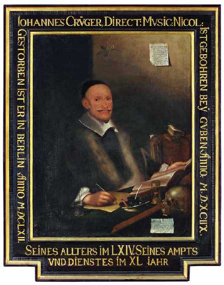 Portrait of Cantor Johann Crüger, Nikolaikirche Berlin